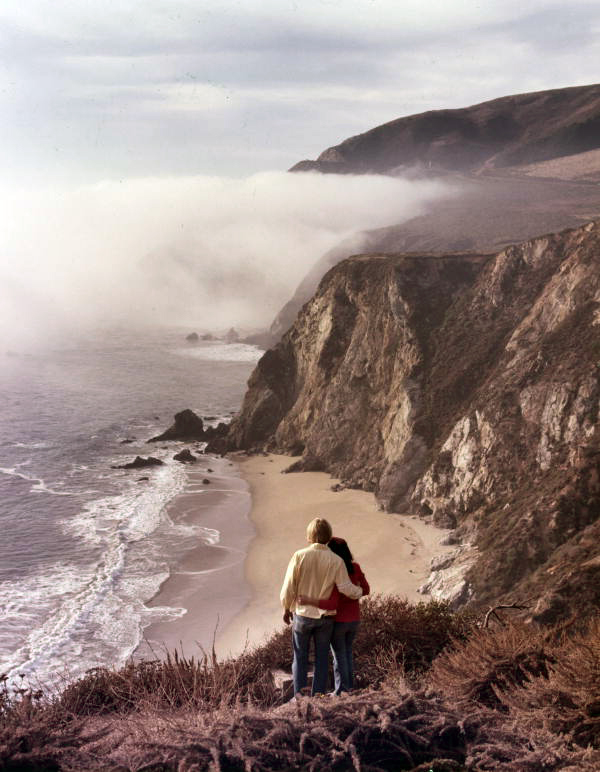 Persistent URL: Local call number: JJS1008 Title: Big Sur, Central Coast California Date: ca. 1960 Physical descrip: 1 transparency - col. - 5 x 4 in. Series Title: Repository: 500 S. Bronough St., Tallahassee, FL 32399-0250 USA. Contact: 850.245.6700.